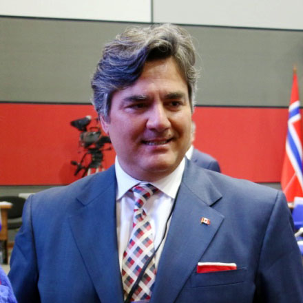 Angelo Iacono at the Plenary Session of OSCE PA Annual Session in Minsk